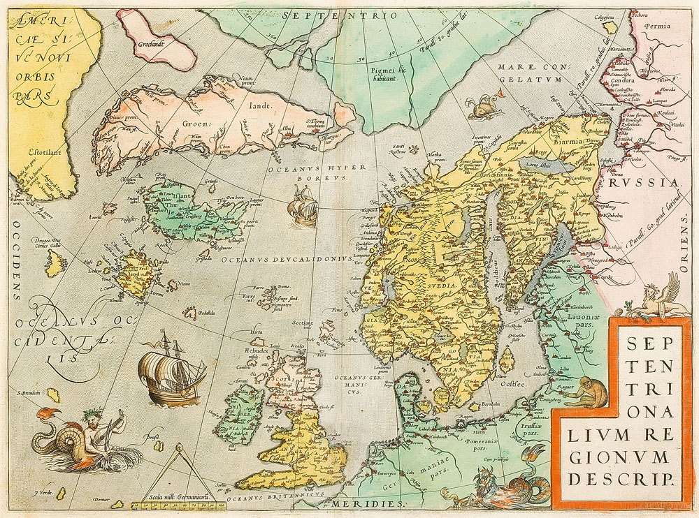 Septentrionalium Regionum Descrip by Abraham Orteius ca 1570 Map of the north Atlantic, Brittain, Ireland, Scandinavia, Iceland and Greenland. Includes some fantasy islands in the Atlantic.